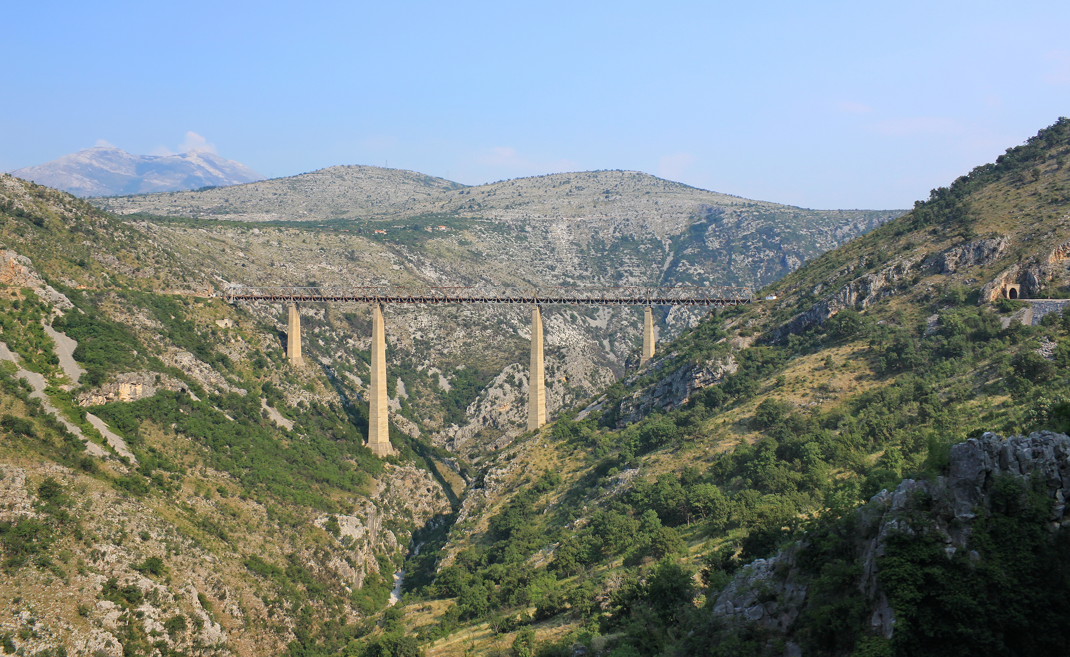 Views of Montenegro from the train on the Belgrade–Bar railway. The Mala Rijeka railway viaduct - the tallest railway viaduct in the world.